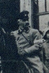 German troops parade Kharkiv, Ukraine, 1918. Ukrainian general Oleksandr Natiev in the middle